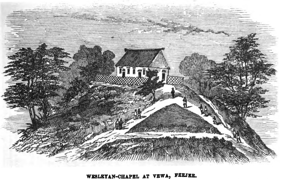 Wesleyan-Chapel at Vewa, Feejee (VII, p.50, May 1850)